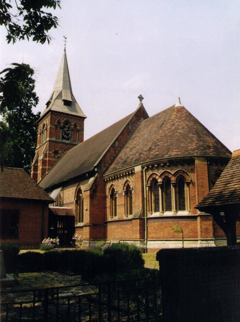 Christ Church, Ottershaw Listed building erected in 1864.